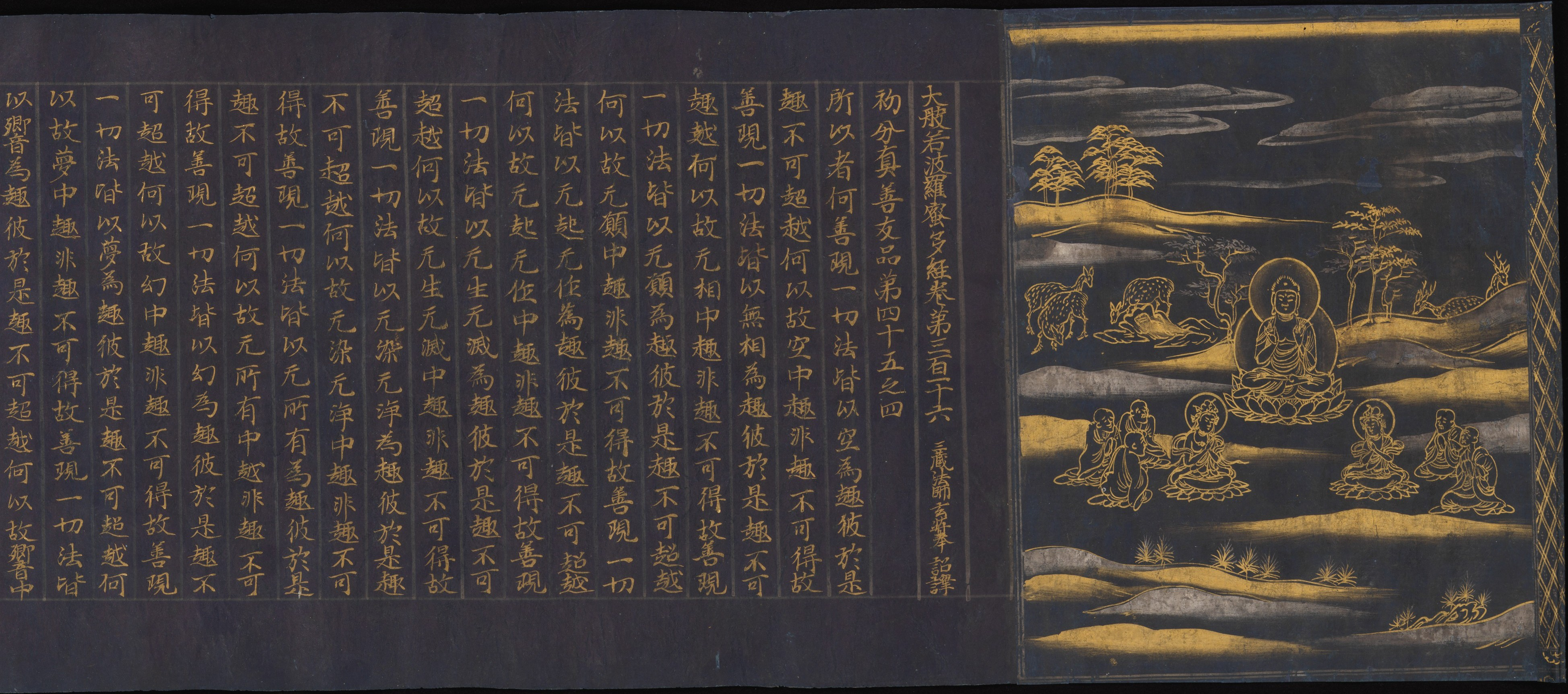 Great Wisdom Sutra from the Chūsonji Temple Sutra Collection (Chūsonjikyō), Heian period, ca. 1175, Japan, handscroll; gold and silver on indigo-dyed paper, 10 x 7 1/8 in. (25.4 x 18.1 cm), Metropolitan Museum of Art, accession 2002.447.1